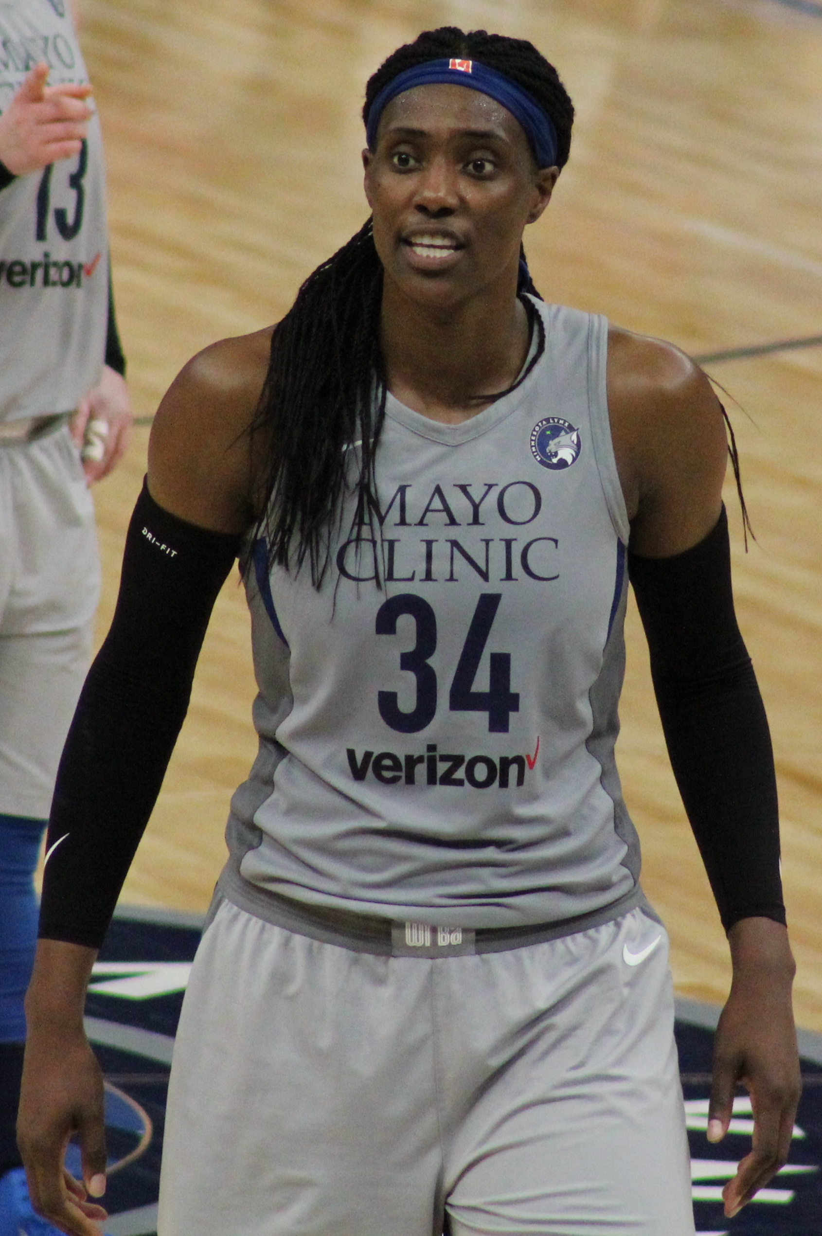 Sylvia Fowles of the Minnesota Lynx